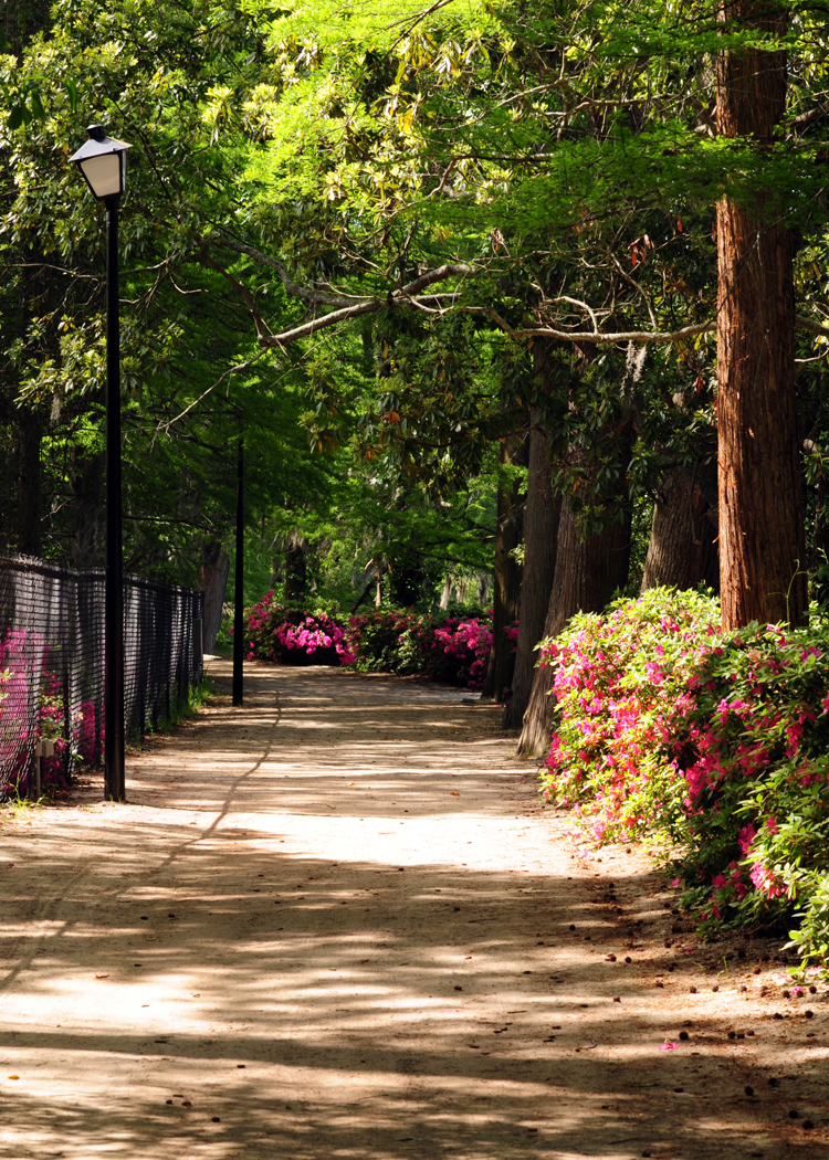 Sumter, South Carolina, USA. A walkway at The Iris Gardens April, 18, 2010. The Iris Gardens at swan lake boast the home of many floral attractions and avian species.